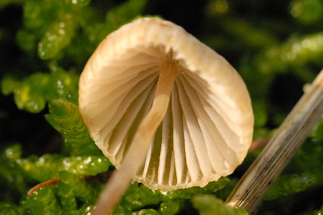 Mycena spec. from Commanster, Belgium. The determination of the species shown in this picture has been verified.